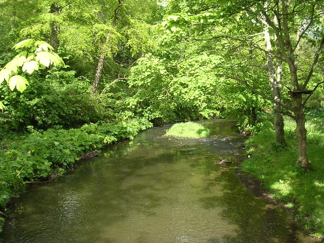 The River Dighty. This view shows the river as it flows through the extreme south west corner of the grid box